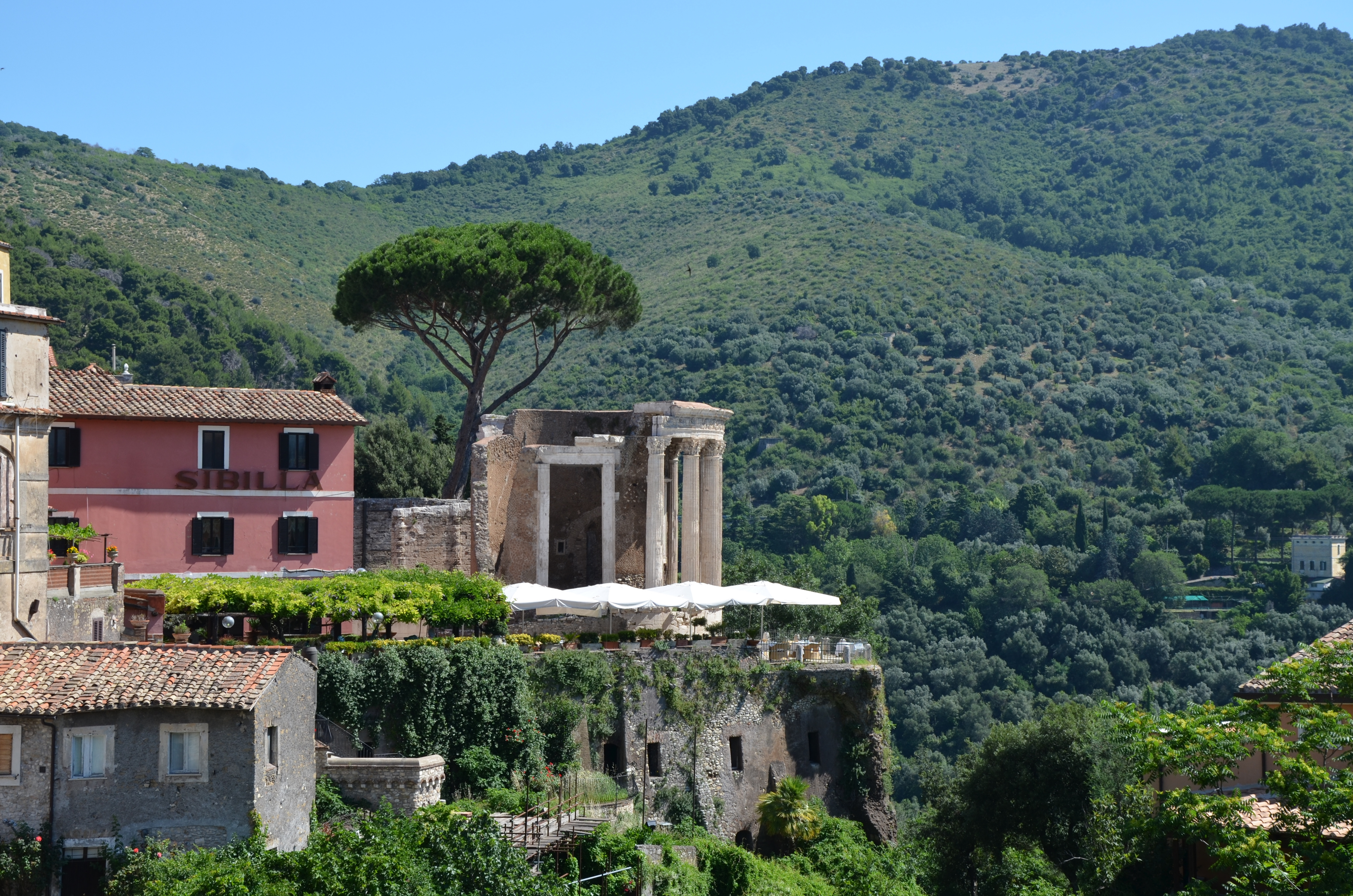 Temple of Vesta, built in the early 1st century BC on the acropolis of Tibur, Tivoli